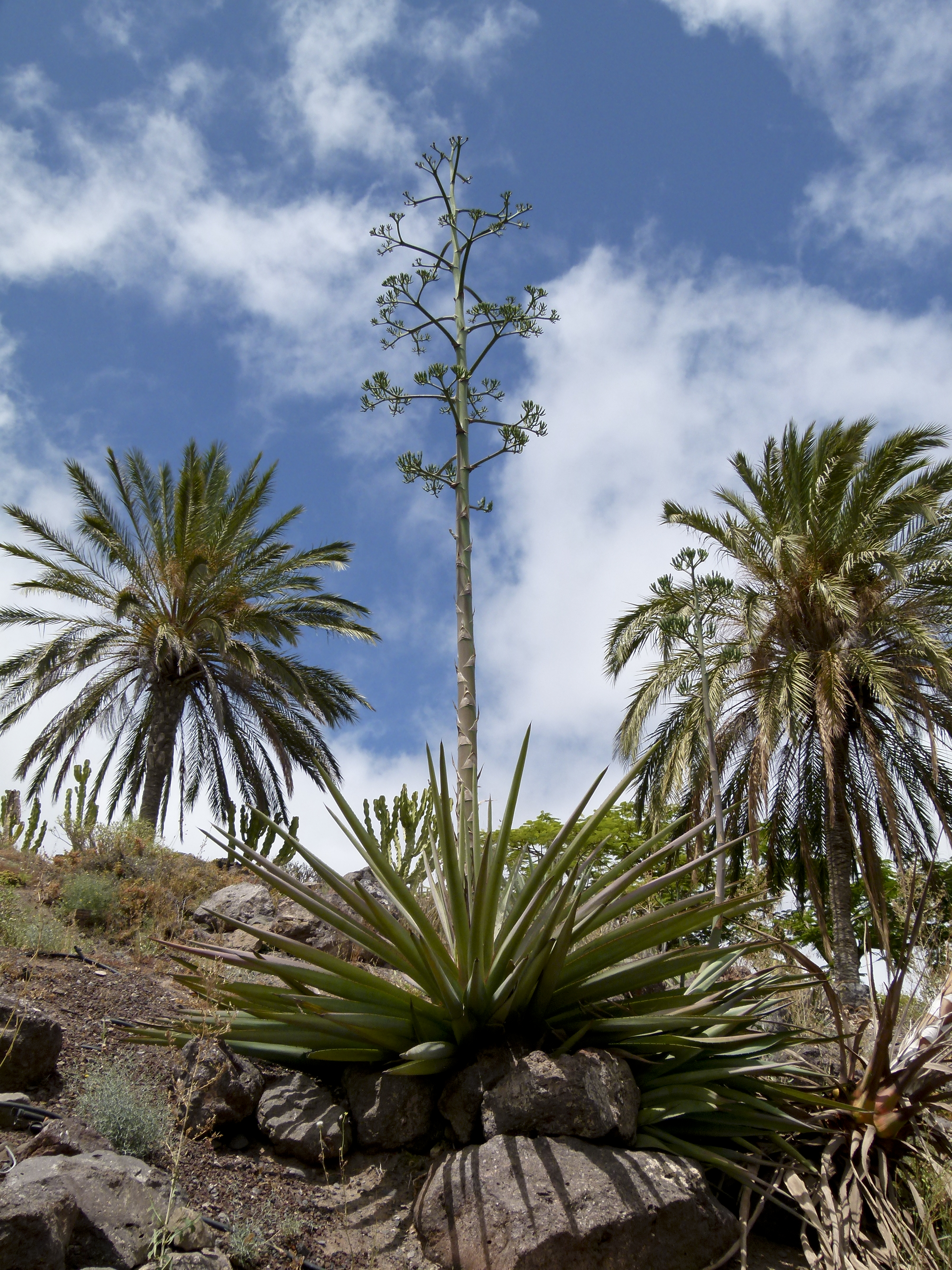 Agave, Fuerteventura, Canary Islands, Spain